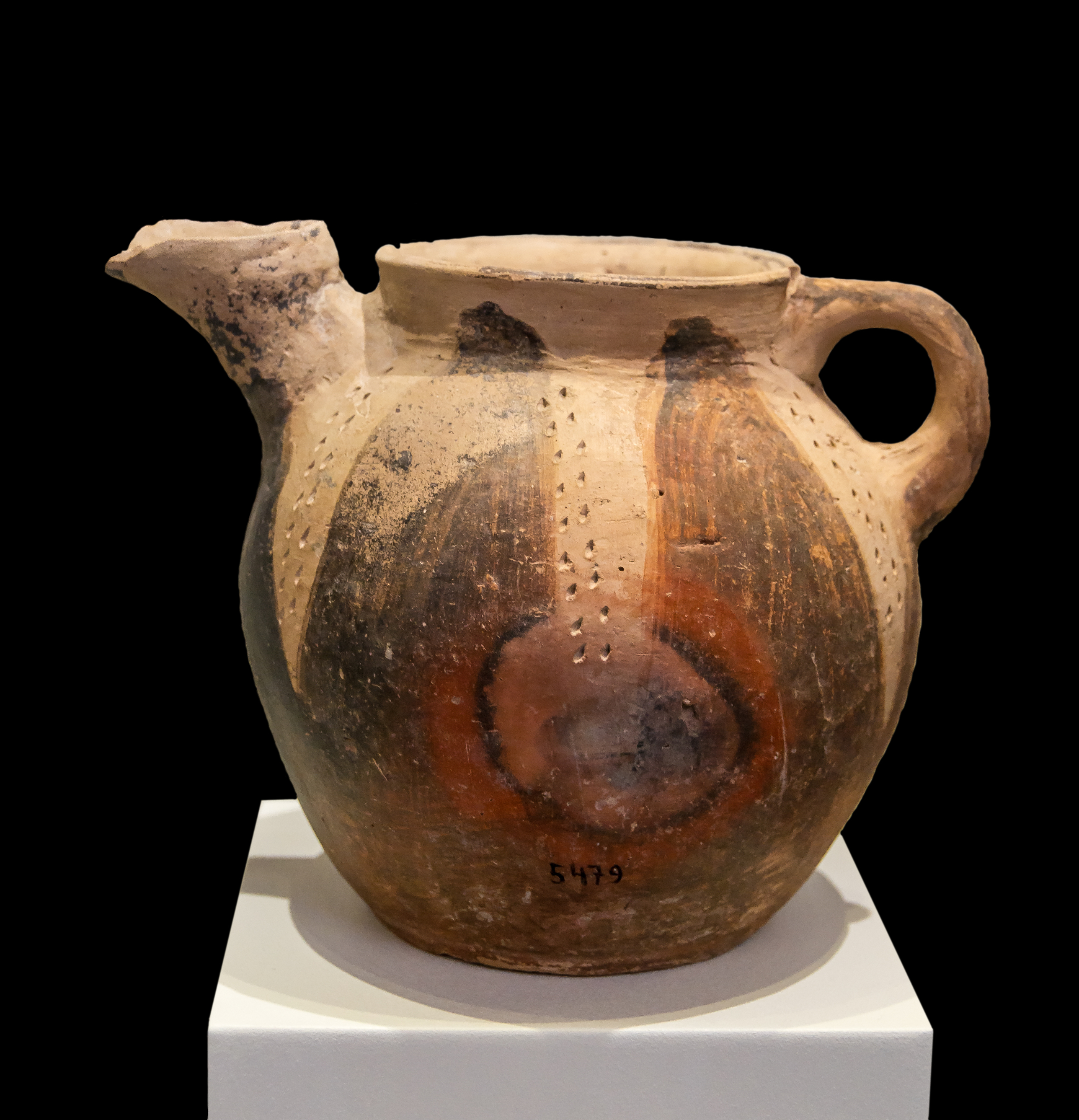 Vasiliki ware, "tea-pot", with characteristic mottled decoration, created by controlled firing in te petter's kiln. Found at Vasiliki in Ierapetra, where there was a flourishing town which was destroyed by fire (uncontrolled...) circa 2200 BCE. The area is considered the main centre of this particular vessel type. Vasiliki, 2400 - 2200 BCE.